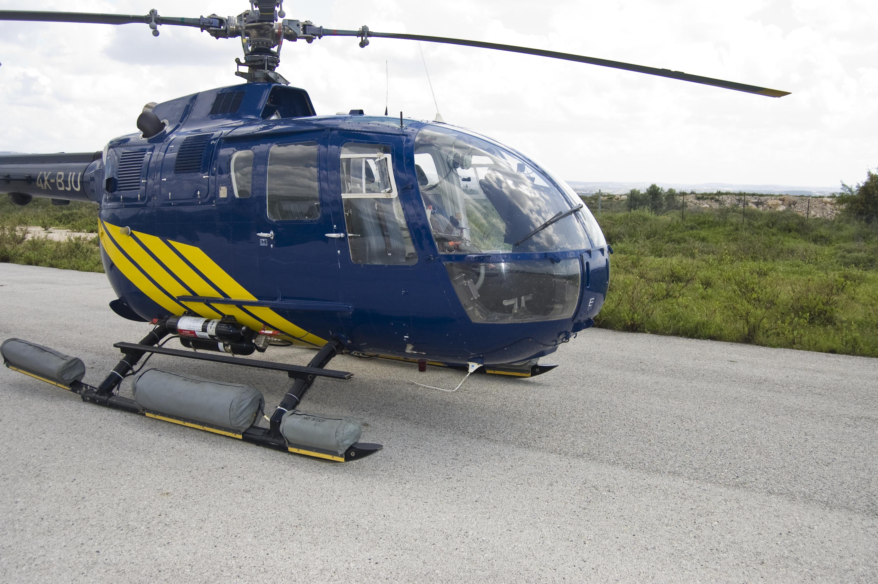 BO 105 helicopter owned by Lahak Aviation / Israel Helicopter Tours